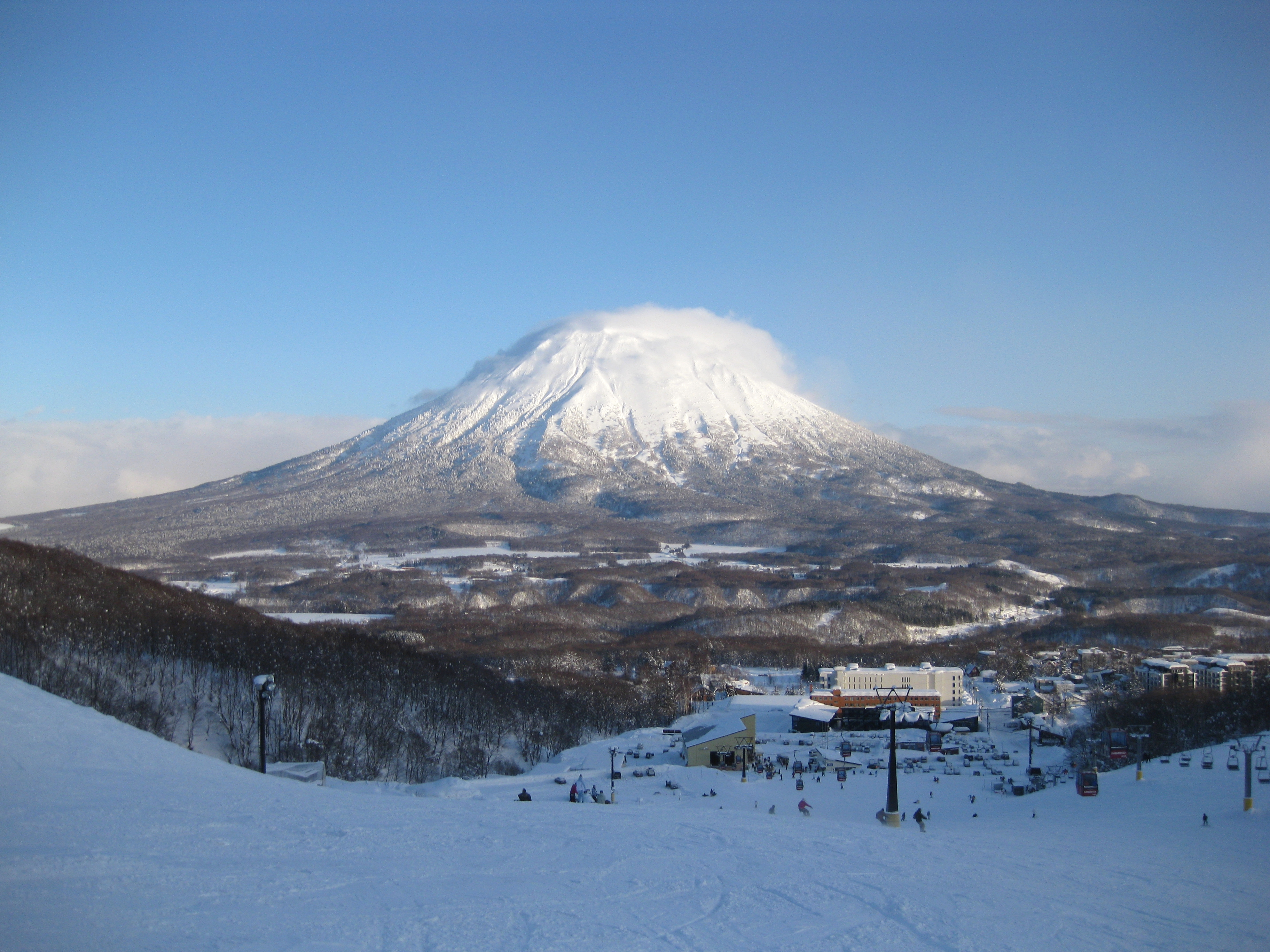 Mt. Yotei. Niseko, Hokkaido, Japan.